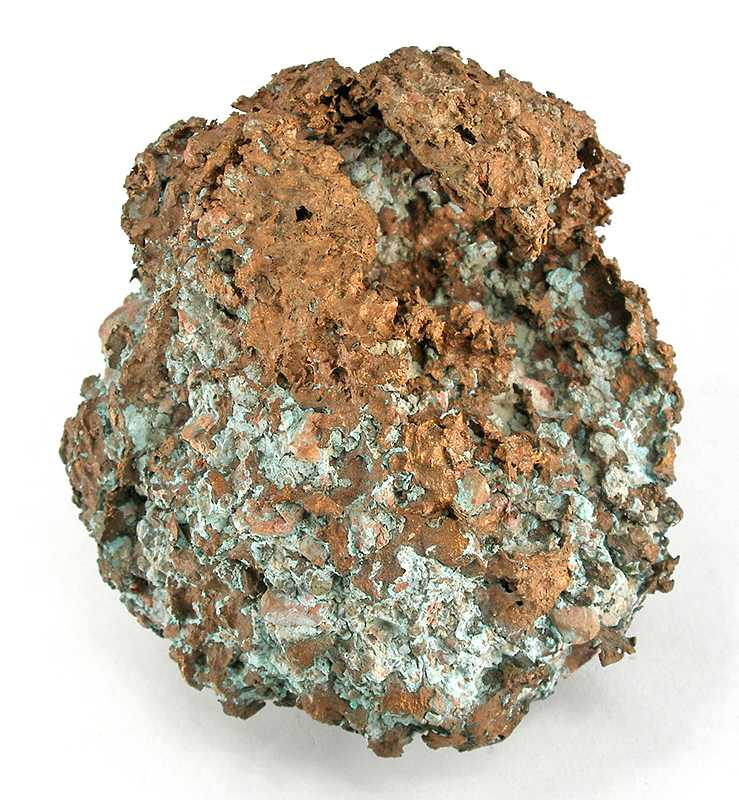 Copper Locality: Copper Harbor Conglomerate, Houghton County, Michigan, USA (Locality at ) Size: cabinet, 11.1 x 9.9 x 7.0 cm Copper "skull" This massive skull weighing in at several pounds is unusual in that it is clearly a skull formed as a cast in a conglomerate lode, but then the inside is filled in by roughly crystallized copper...Very unusual. This makes the piece heavy for its size, as it is more like a solid baseball than a skull with hollow space. Ex. Richard Hauck Collection.